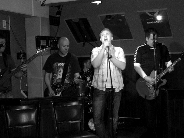 RHORM live at Harry Pub, Knarvik, Norway (2009)